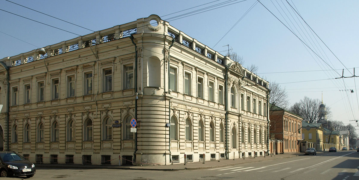 Embassy of Spain in Russia, at 50 Bolshaya Nikitskaya Street in Moscow.